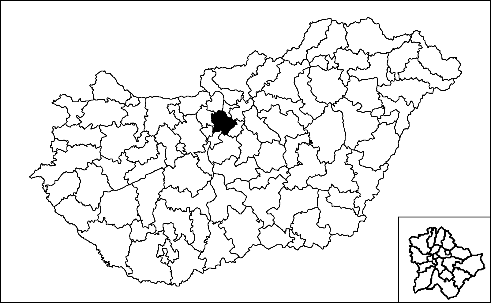 The Hungarian constituencies since 2011 for the parliamentary elections.